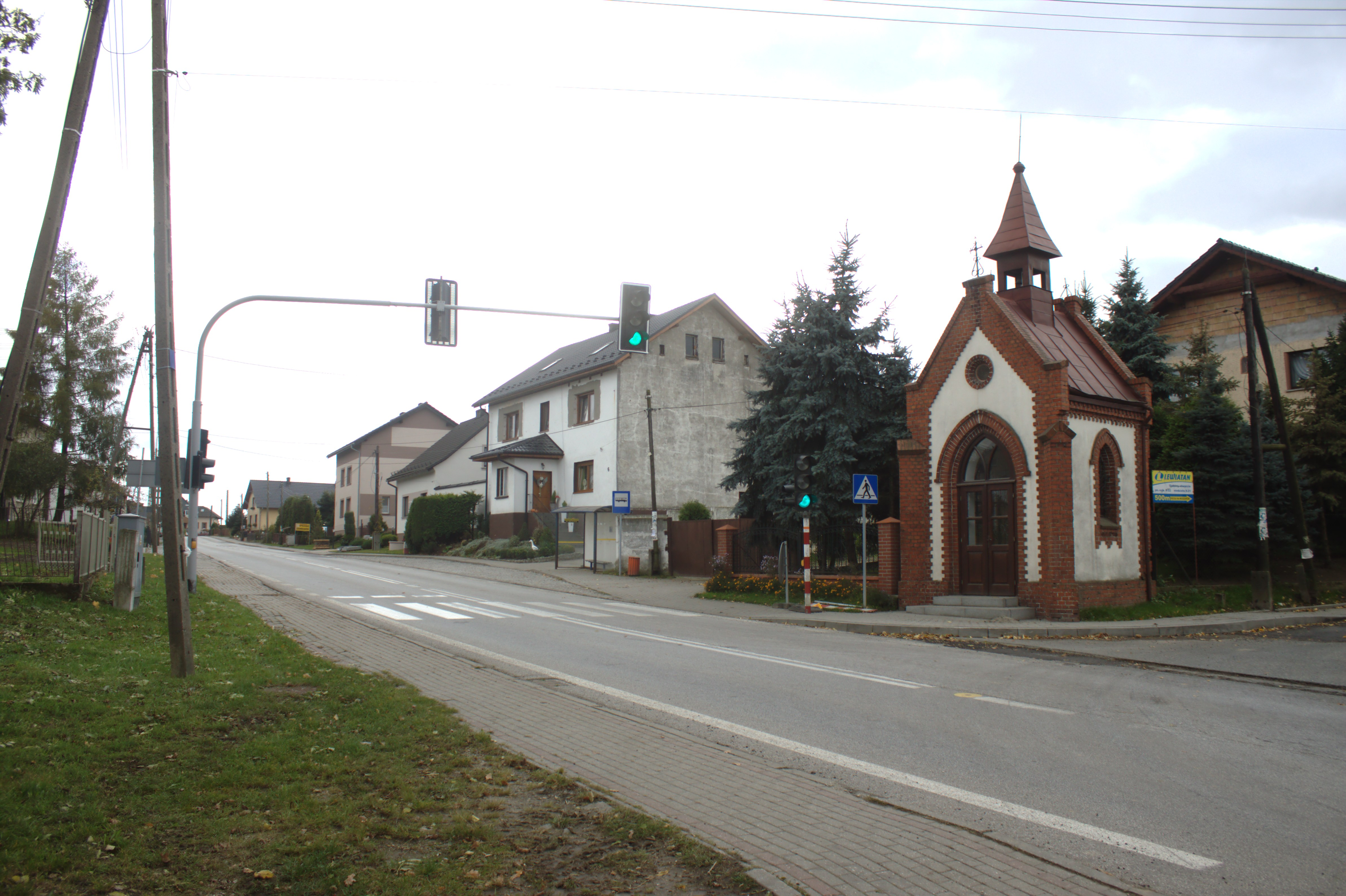 A wayside chapel in the village of Szonowice, Opole Voivodeship, Poland